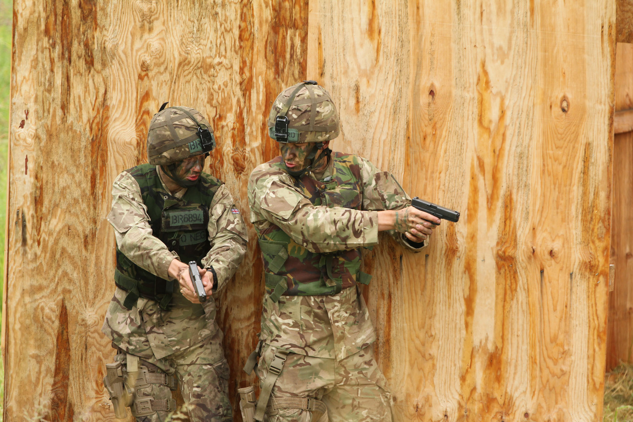 Cadets from the British Army's Royal Military Academy Sandhurst communicate before clearing a room during a live-fire exercise at the U.S. Army's 7th Army Joint Multinational Command at Grafenwoehr Training Area. Cadets from Sandhurst are completing their final field exercise and 50 West Point cadets are completing their leadership development training in an exercise that will include additional group live-fire exercises in Grafenwoehr and maneuver exercises in Hohenfels. (U.S. Army photo by Cpt. Dan Marchik, 646th Regional Support Group)